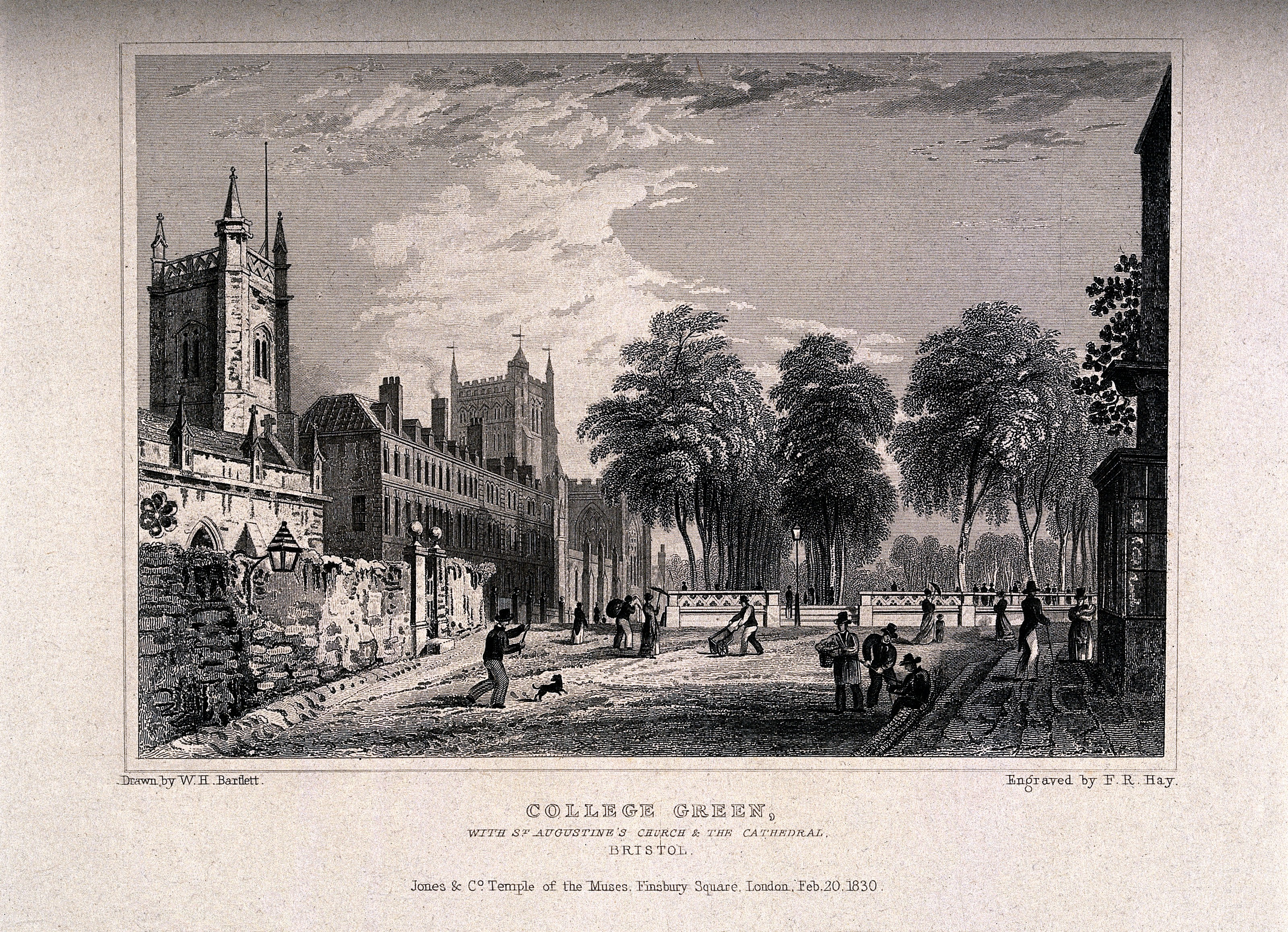 College Green with St. Augustine-the-less church and Bristol Cathedral. Line engraving by F.R. Hay, 1830, after W.H. Bartlett. Iconographic Collections Keywords: William Henry Bartlett; Frederick Rudolph Hay